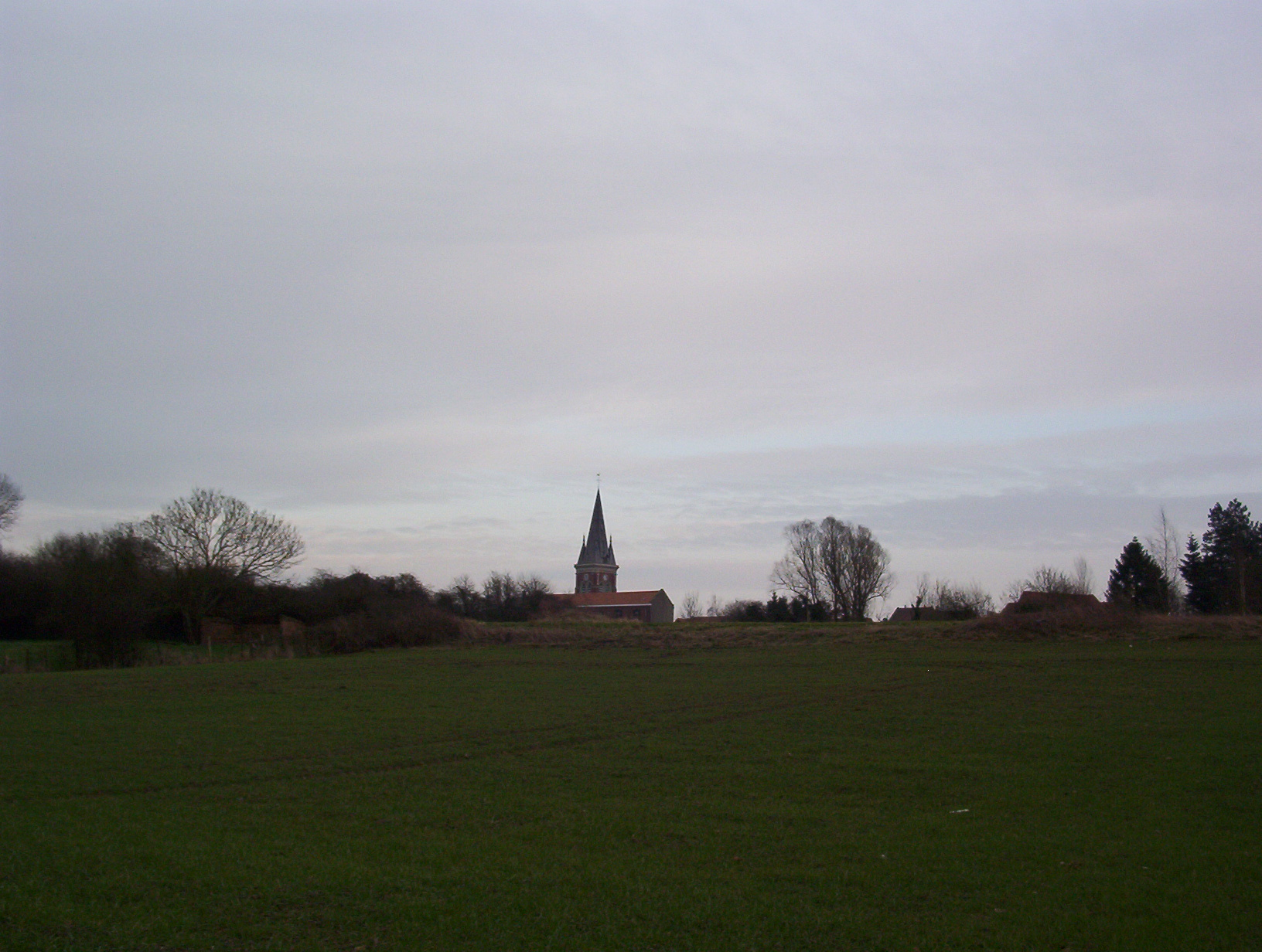 Church of the French village : Aubers